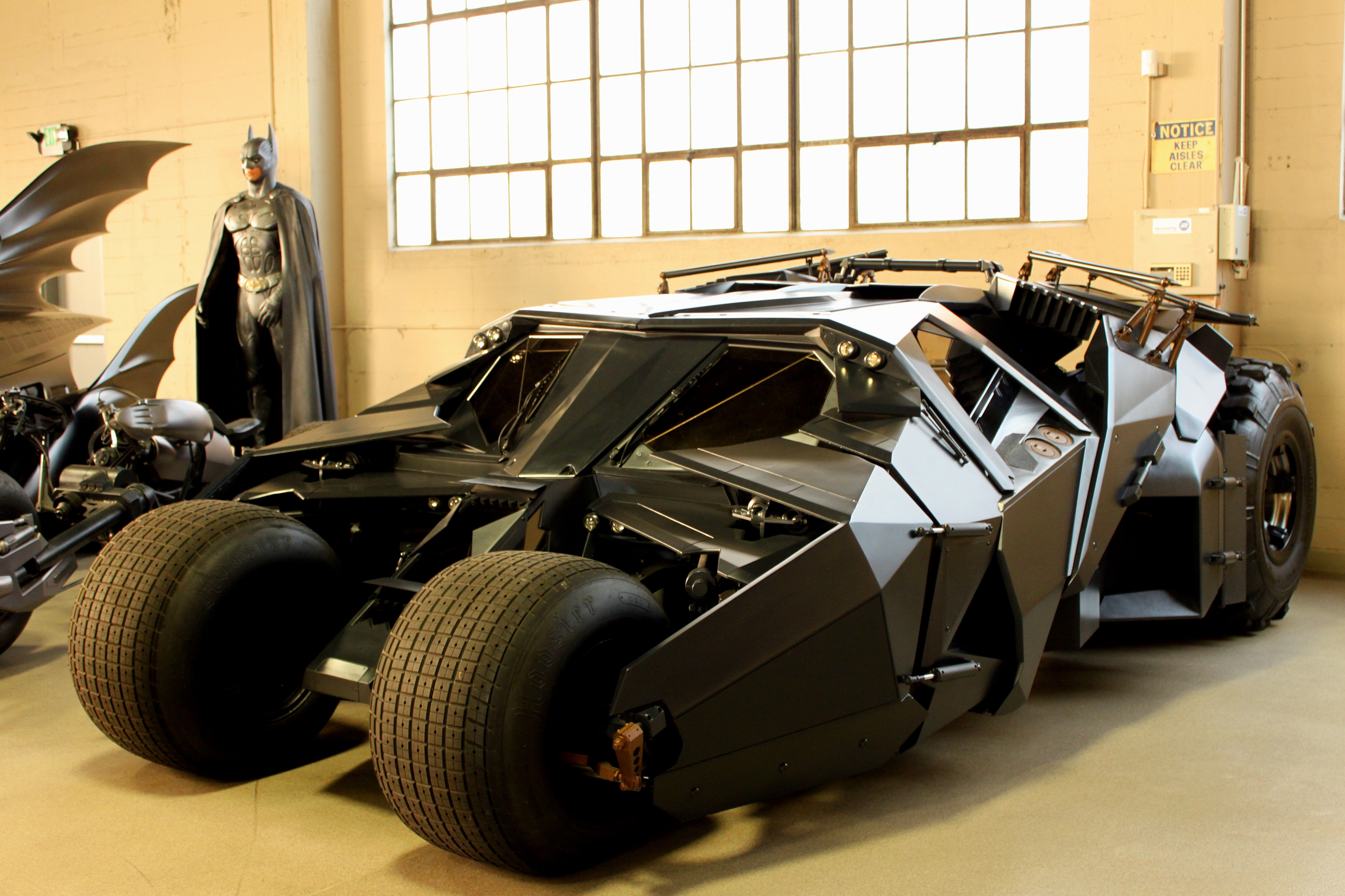 The Tumbler, the Batmobile used in the Christopher Nolan trilogy at the Warner Brothers Studios VIP Tour, Hollywood, California, USA.